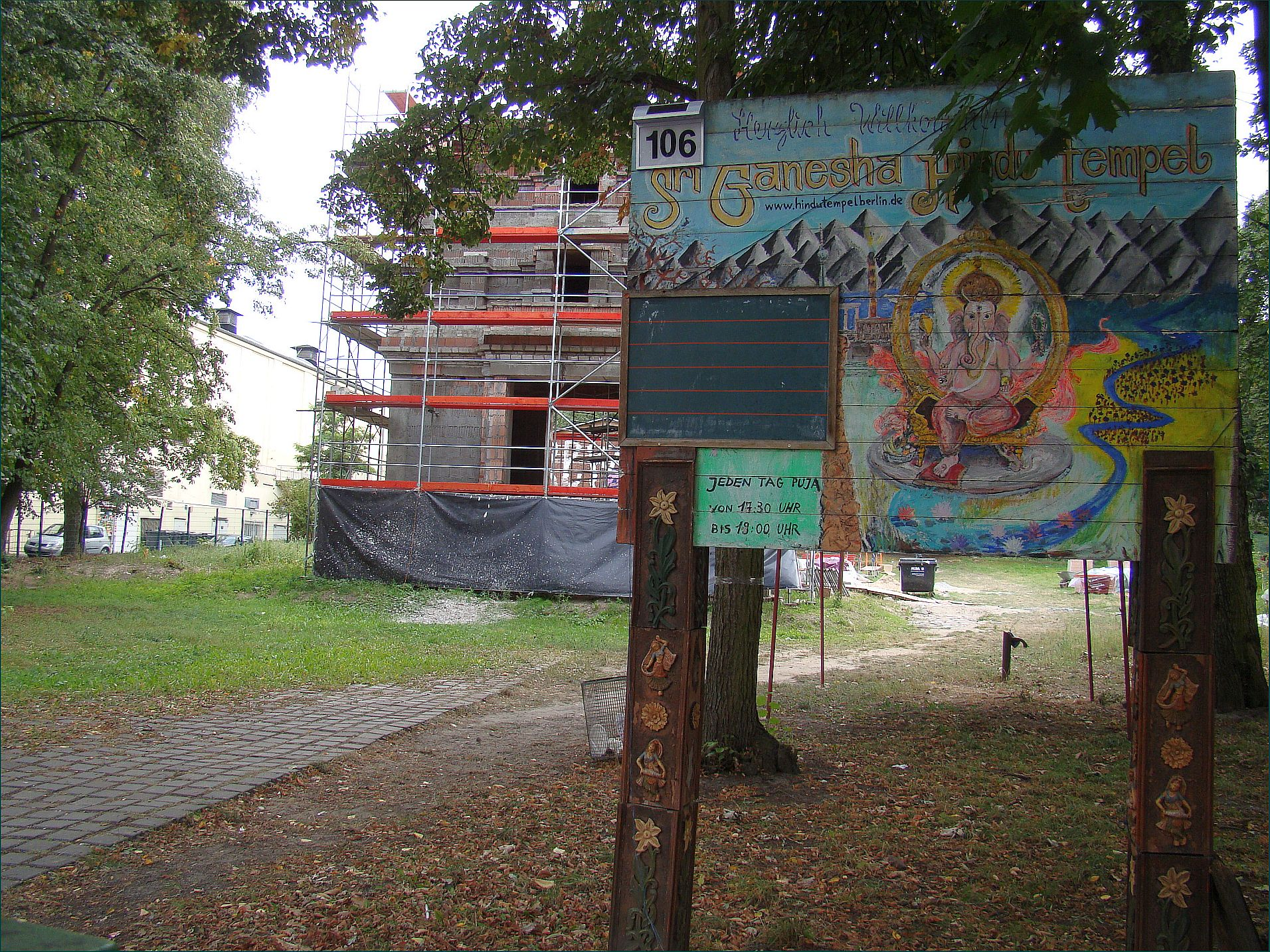 Sri Ganesha Hindu Tempel: Construction of the portal